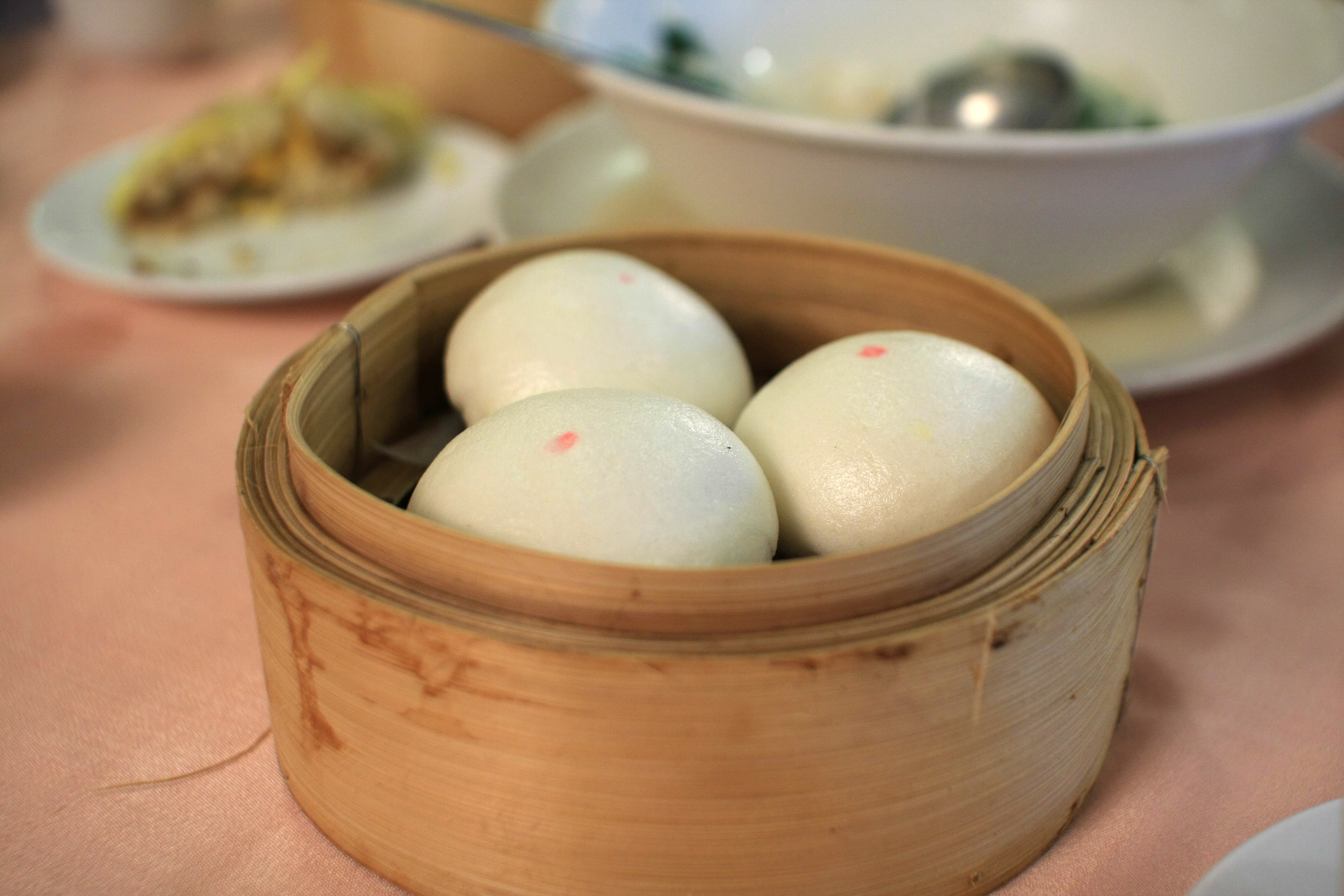 蓮蓉包 (Lotus seed bun). This particular kind is available in any typical Cantonese restaurants as a kind of dim sum.